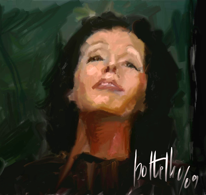 Amalia Mixed media on canvas by Bottelho from Wiki-Series